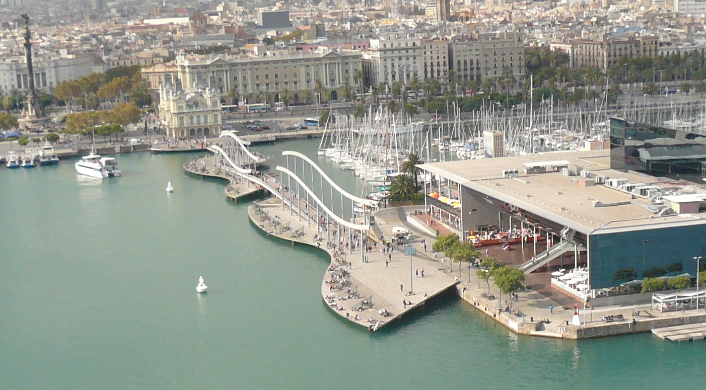 Rambla del Mar, Barcelona, Spain